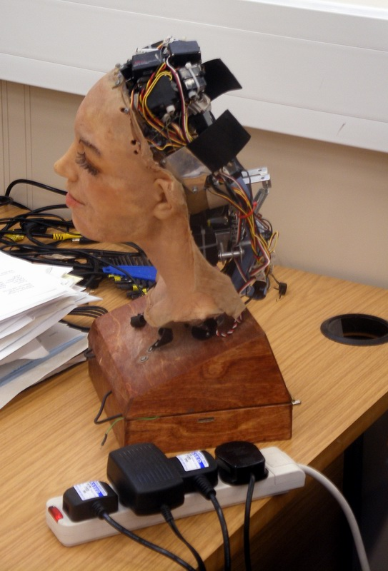 Expressive robot face. From this angle she looked cooly elegant, from the front it was uncanny valley directly.